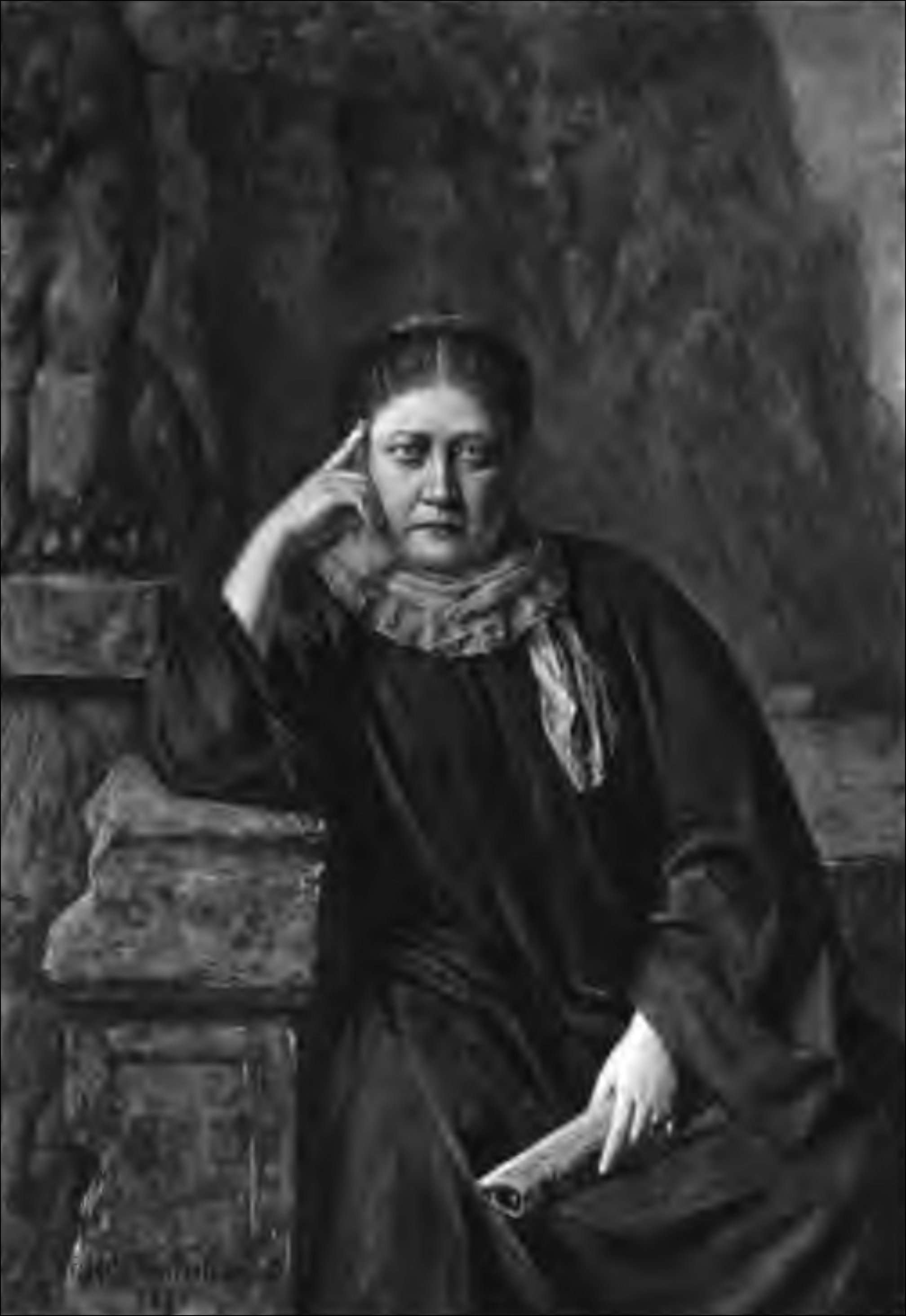 Portrait of Helena Blavatsky by Hermann Schmiechen, 1884.